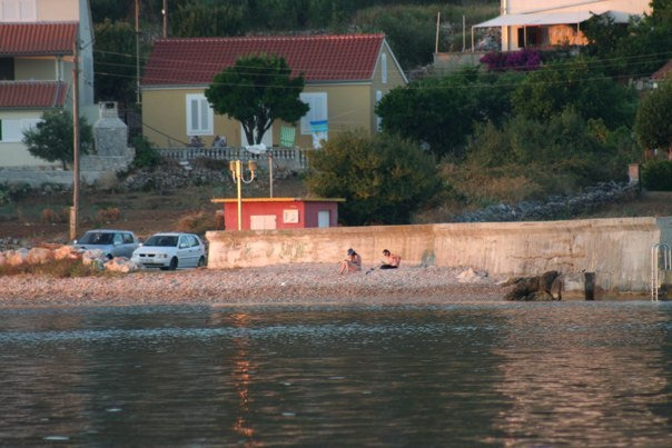 Soline1235p